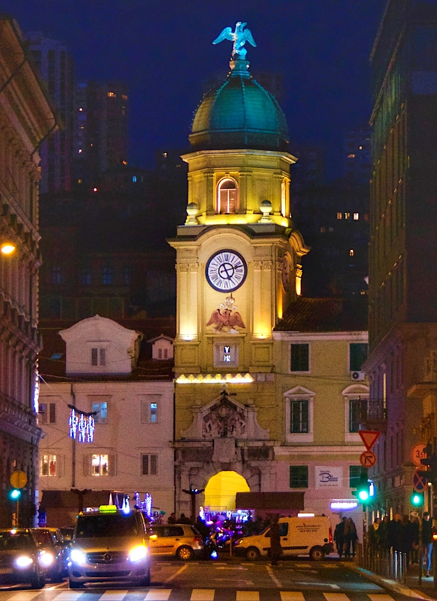 City Tower of Rijeka in the night